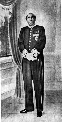 Kurma Venkata Reddy Naidu, a Justice Party Politician and a former Chief Minister of Madras Presidency.